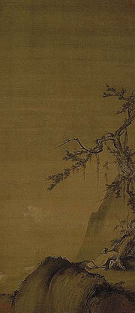 Autumn landscape from the set: Autumn and Winter Landscapes (絹本著色秋景冬景山水図, kenpon chakushoku shūkei tōkei sansuizu) by Emperor Huizong of Song dated to 12th century Southern Song Dynasty. One of two hanging scrolls, 128.2 cm x 55.2 cm each. Color on silk. Located at Konchi-in (金地院) in Kyoto.